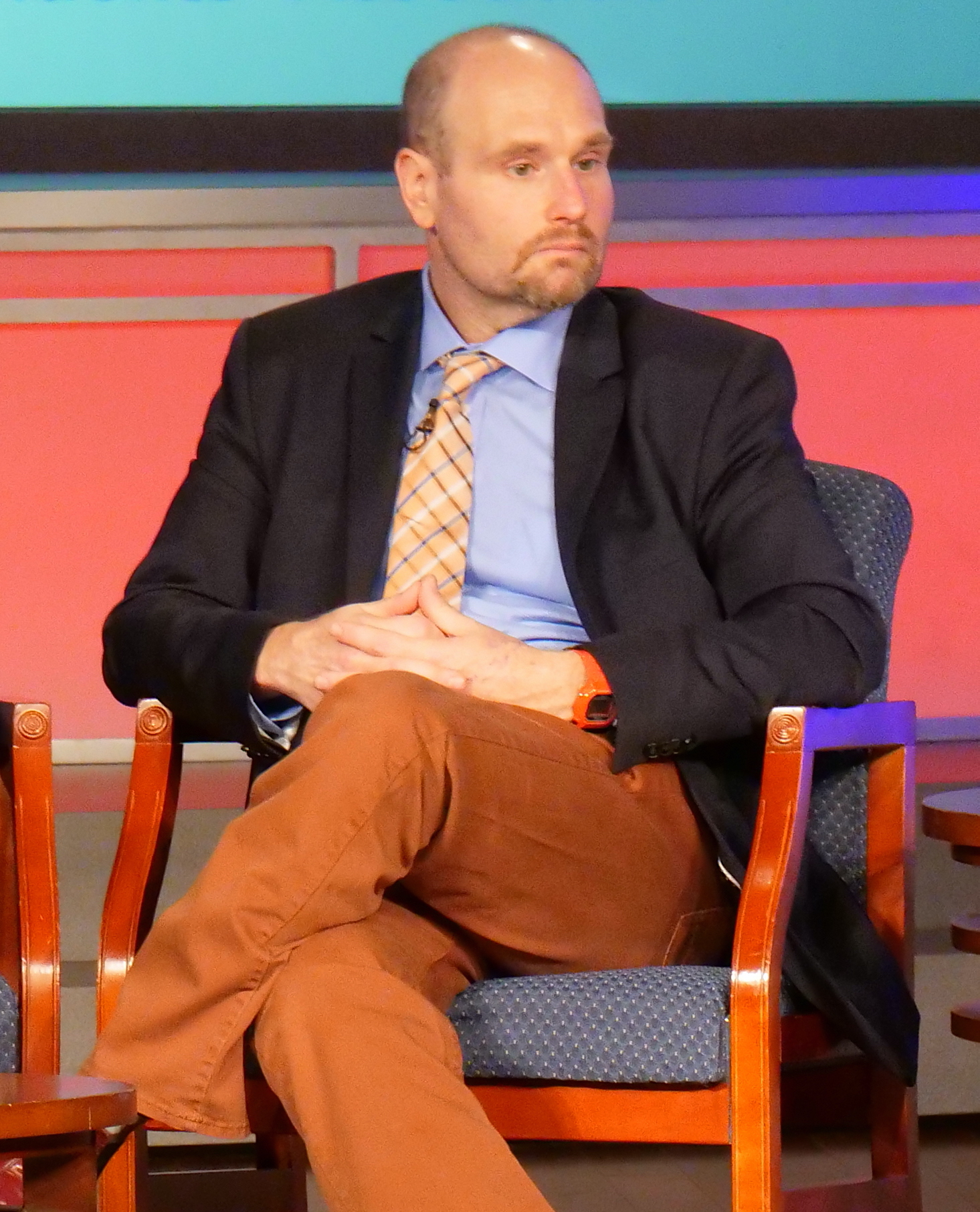 Glenn Thrush at a 2017 symposium hosted by the School of Media and Public Affairs at the George Washington University with the White House Correspondents' Association.